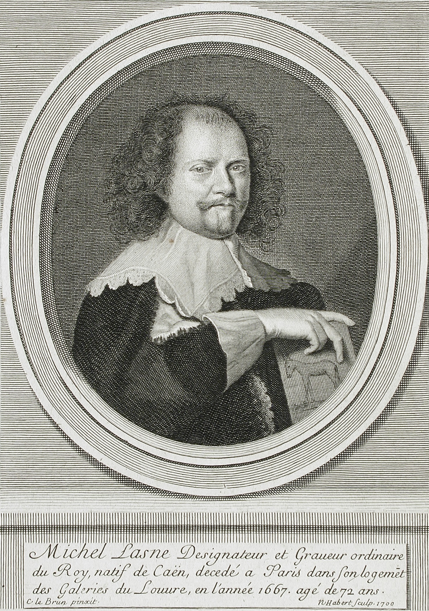 France, 1700 Prints; engravings Engraving Ch. Le Brun pinxit Gift of Mr. and Mrs. Theodore Harris (AC1993.213.19) Prints and Drawings